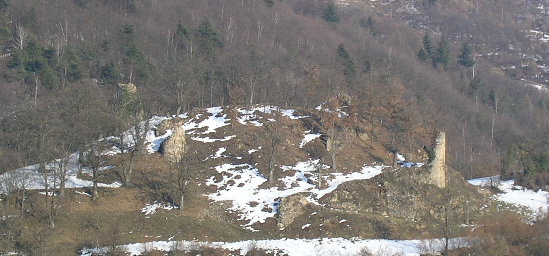 View of the ruins of the Perlo's castle (Italy)